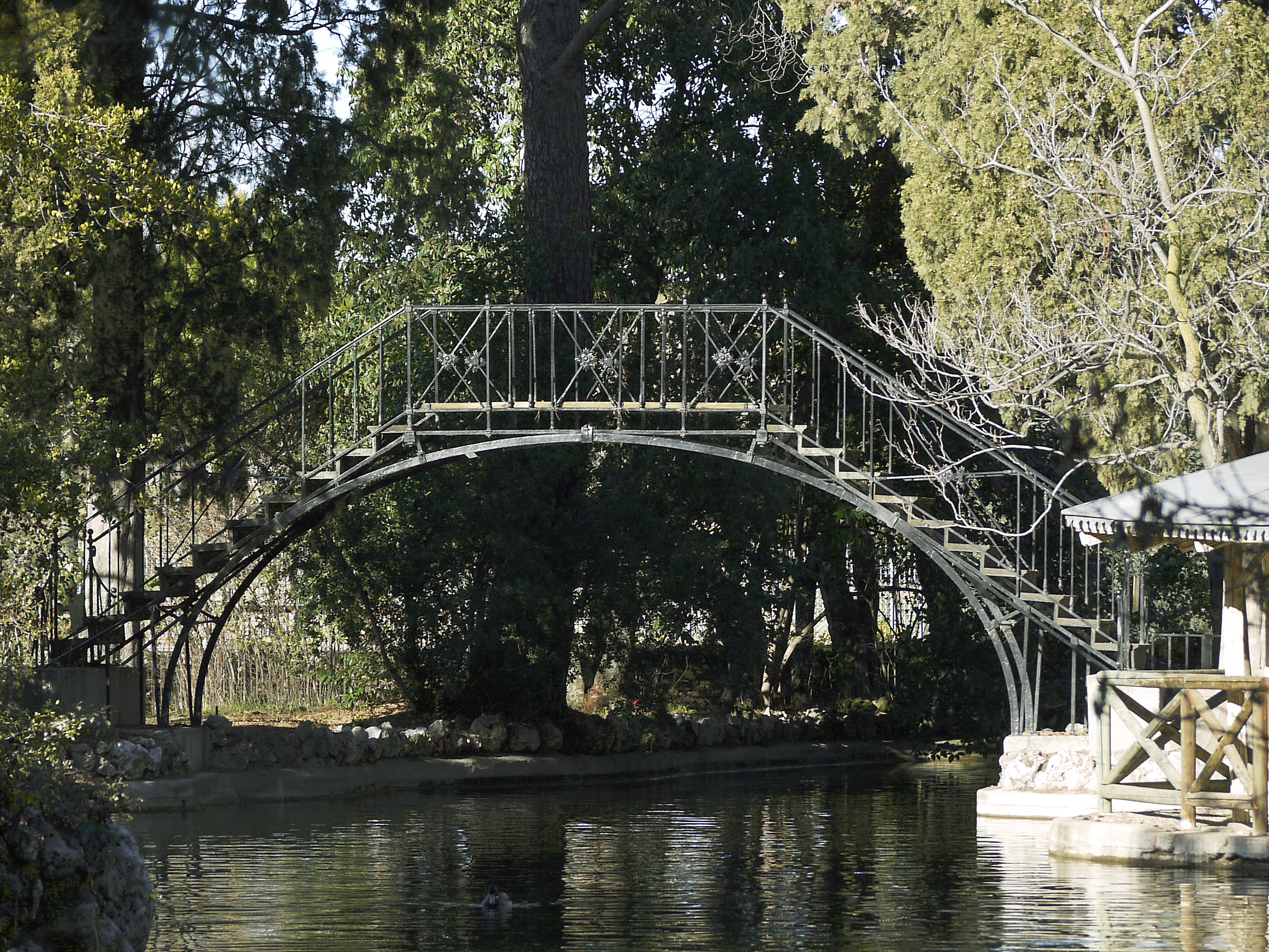 Jardín El Capricho, Madrid, Spain. Iron bridge.